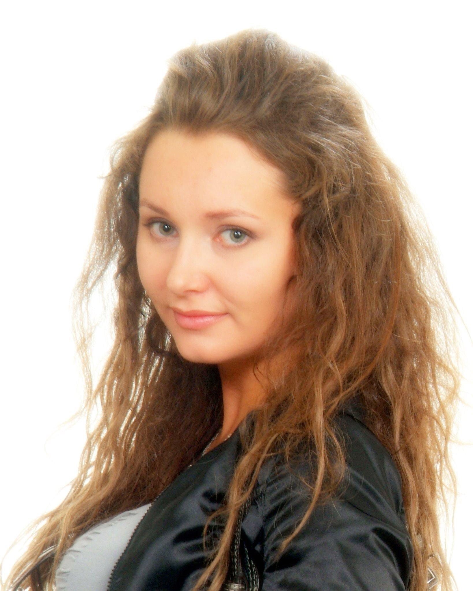 Photo from Booksigning